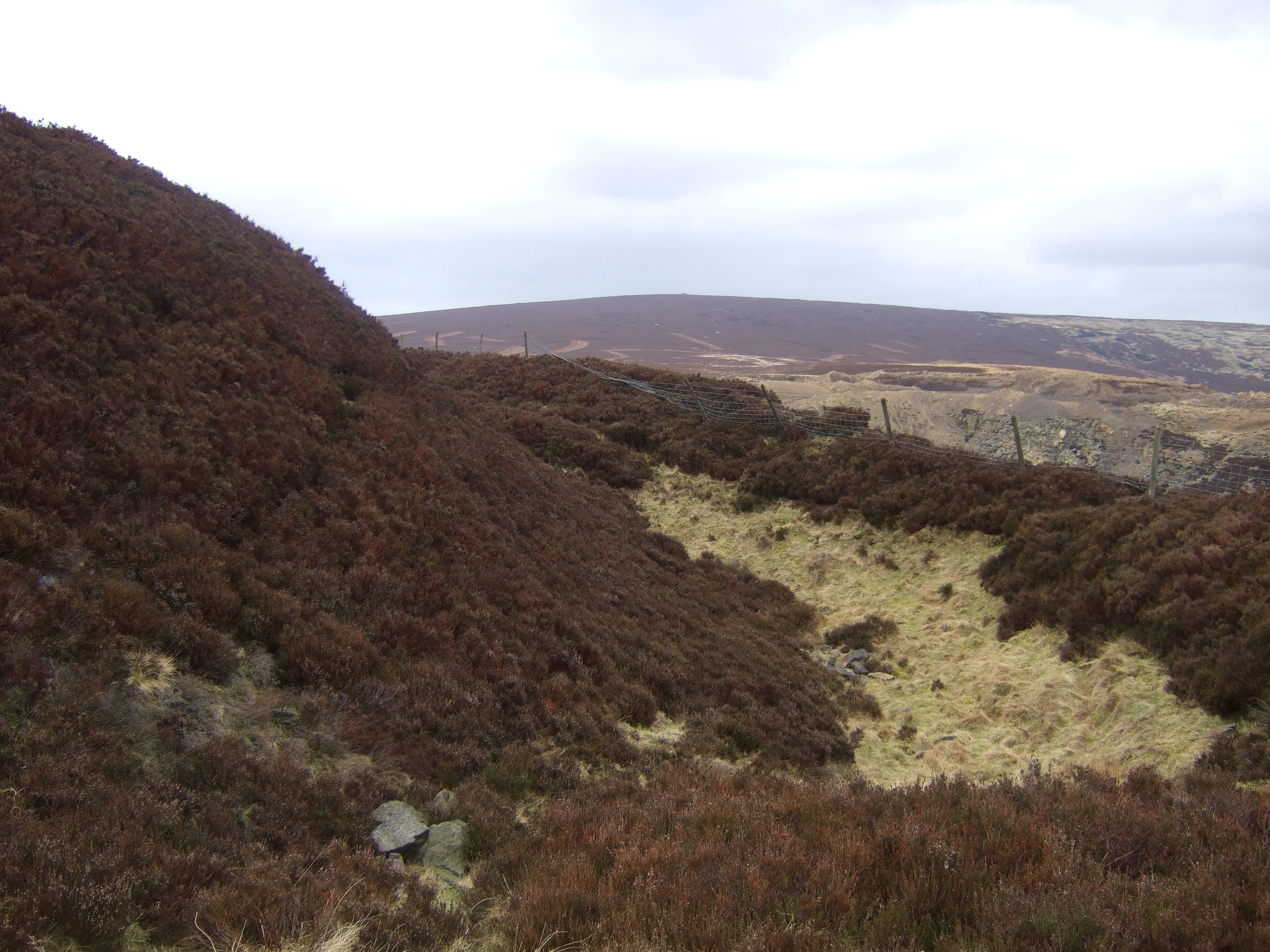 The defensive ditch surrounding Buckton Castle